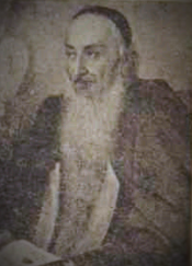 Mgrdich Bodourian, Hay Hanrakidag, 1938 Boukresh, Part 2